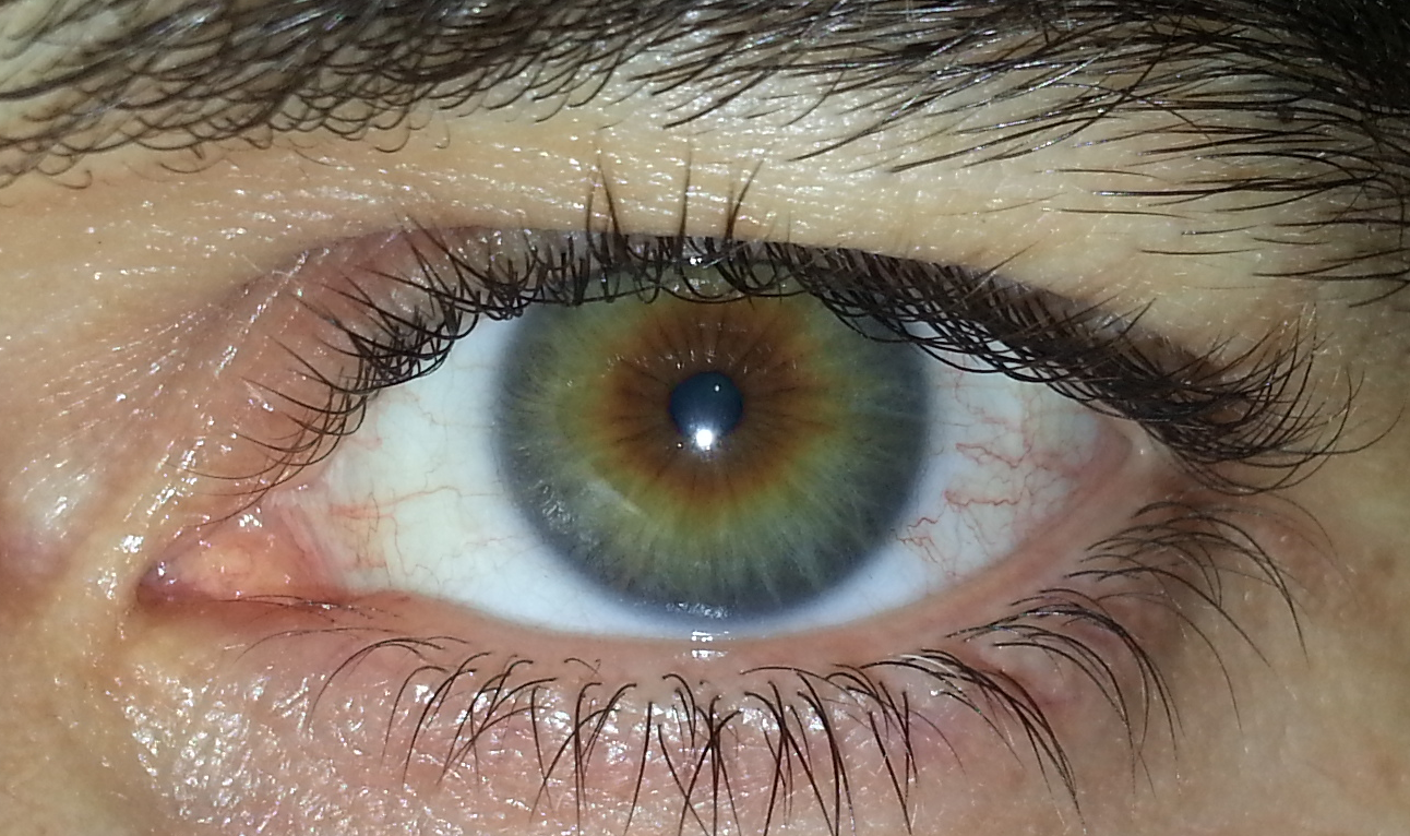 A multi-coloured eye containing, grey, green, amber and brown tones